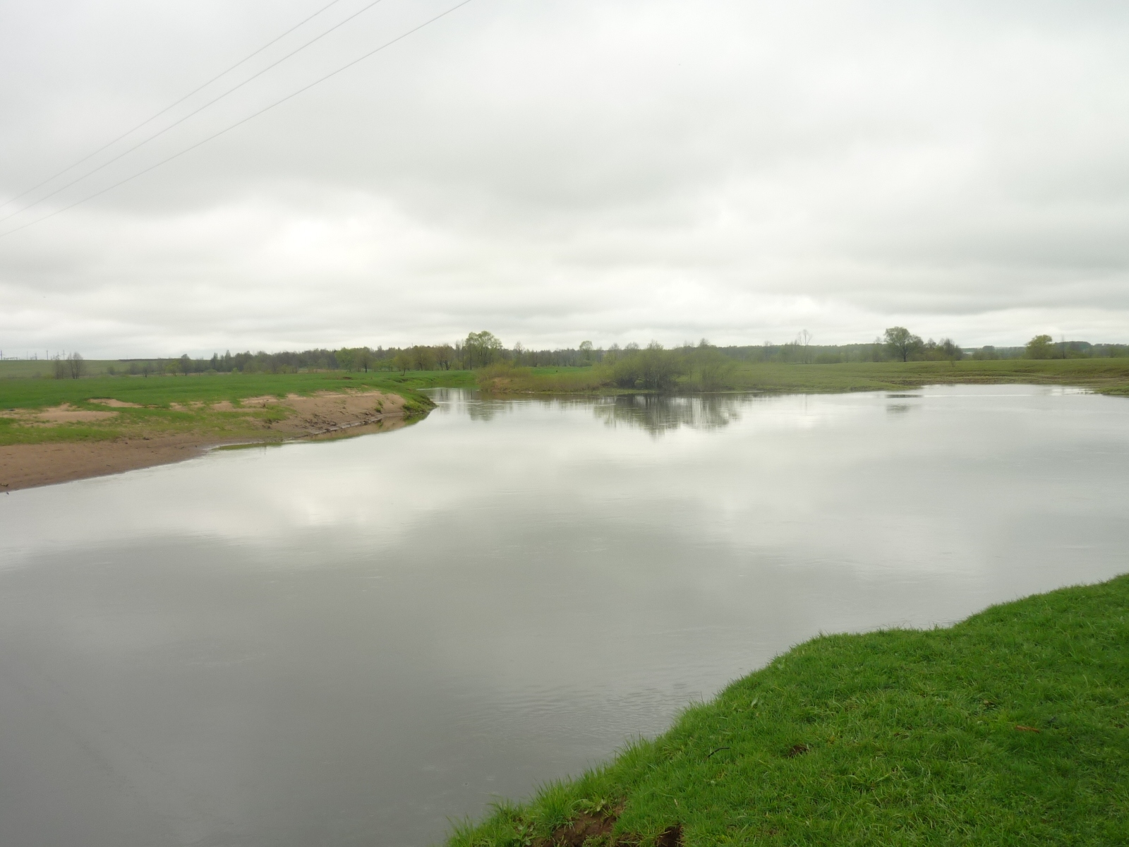 be:Рака Проня River Pronia in Slavgorod district, Mogilev region